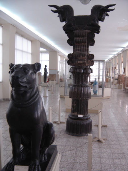 Photo by Zereshk. Sony 5.1 MegaPixel camera.11:14, 26 June 2005